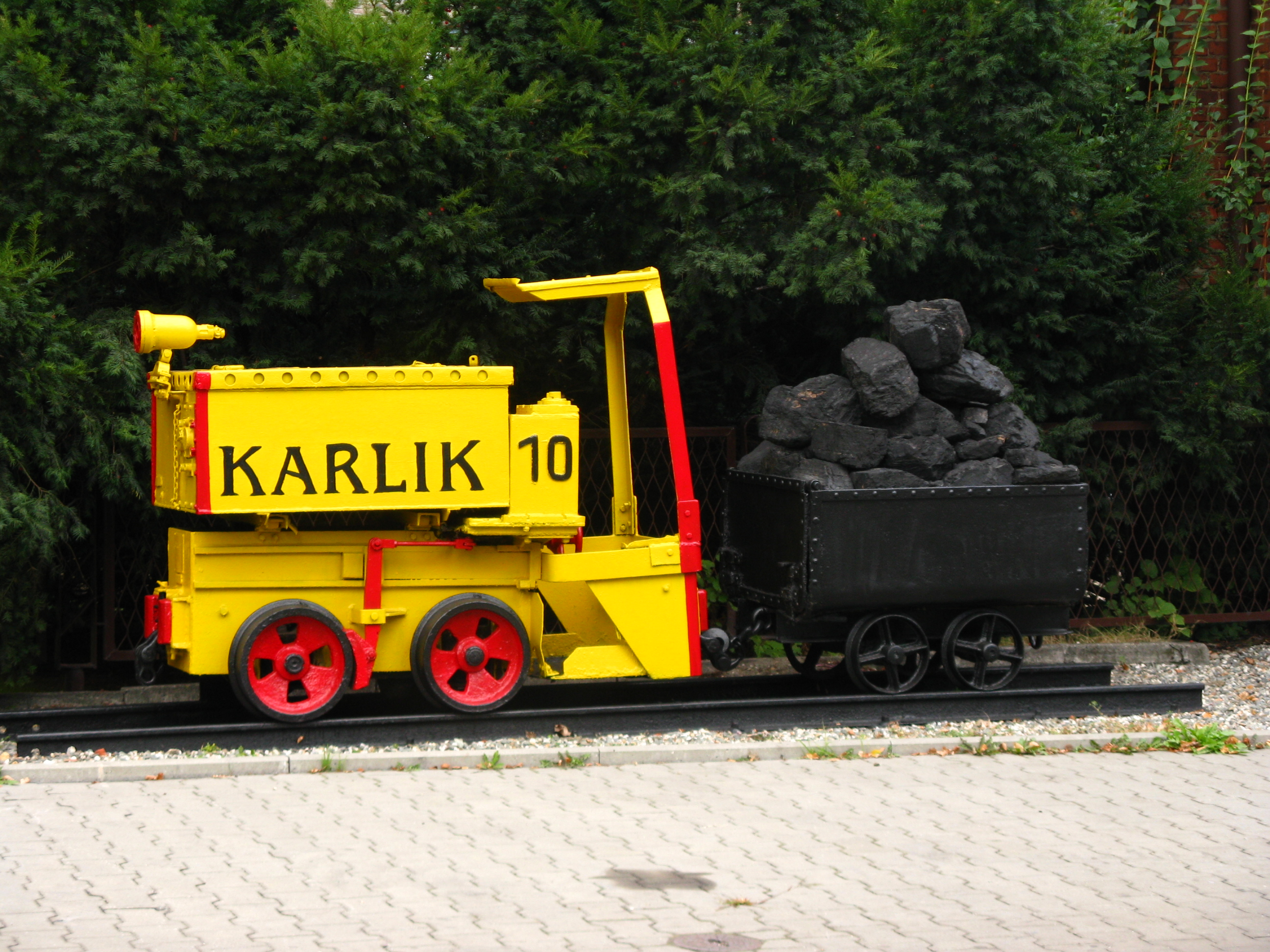 Coal mine "Anna" Rydułtowy, Silesia, Poland